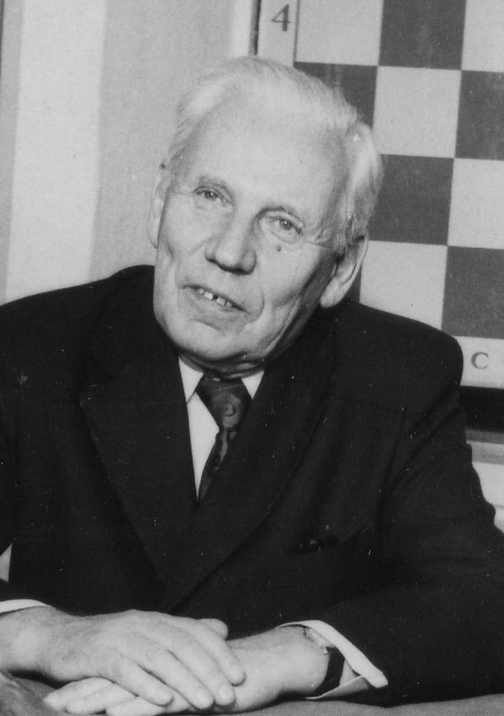 Alexander Pavlovich Gulyaev (Grin) (18.11.1908-18.02.1998) Russian chess composer